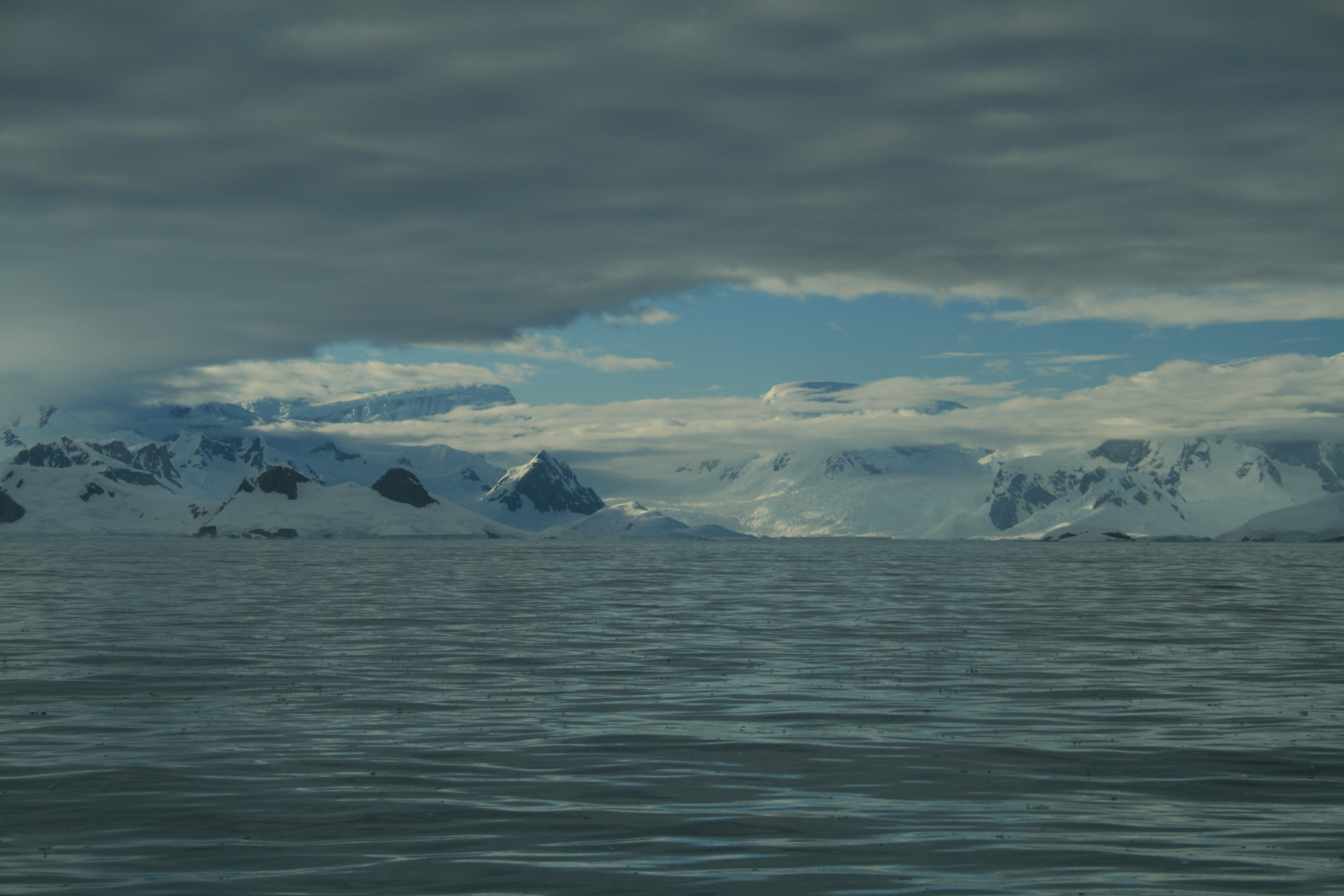 Taken on trip to the Antarctic Peninsula in february 2009